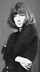 Sonja Kehler on may 1974 during an recording in Berlin